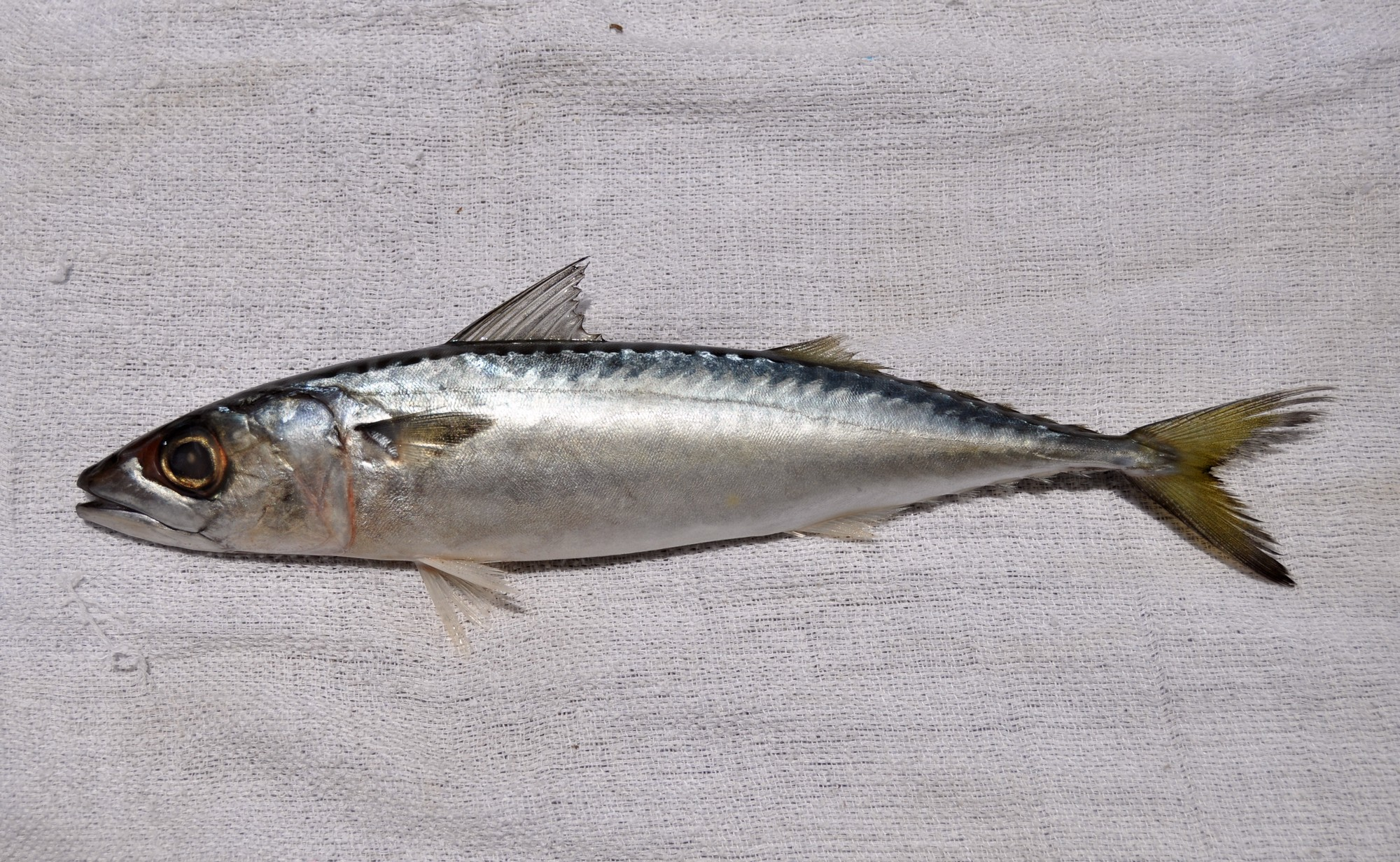 Pacific Chub Mackerel, Scomber japonicus, 225mm FL. From local market in Bogor, West Java, Indonesia.